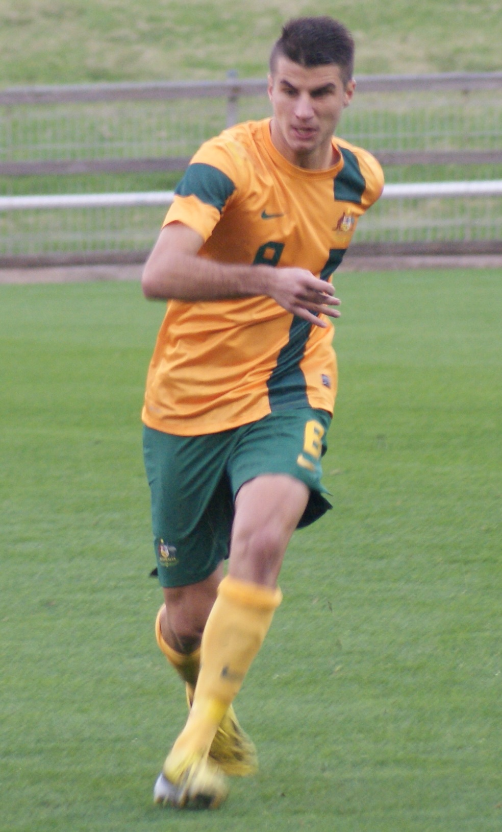 Young Socceroos vs New Zealand